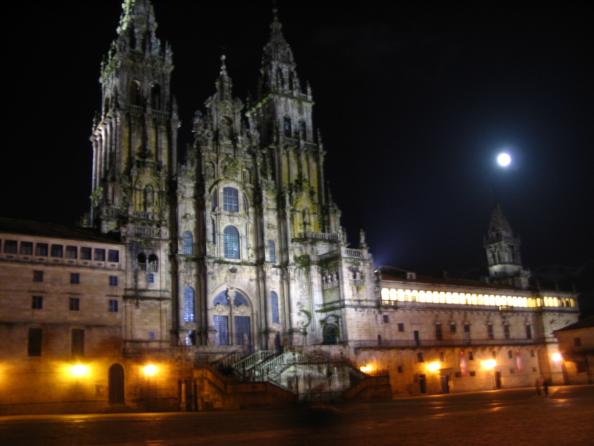 Cathedral of Santiago de Compostela. Kostel v Santiagu Compostela, Galicie, Španělsko.